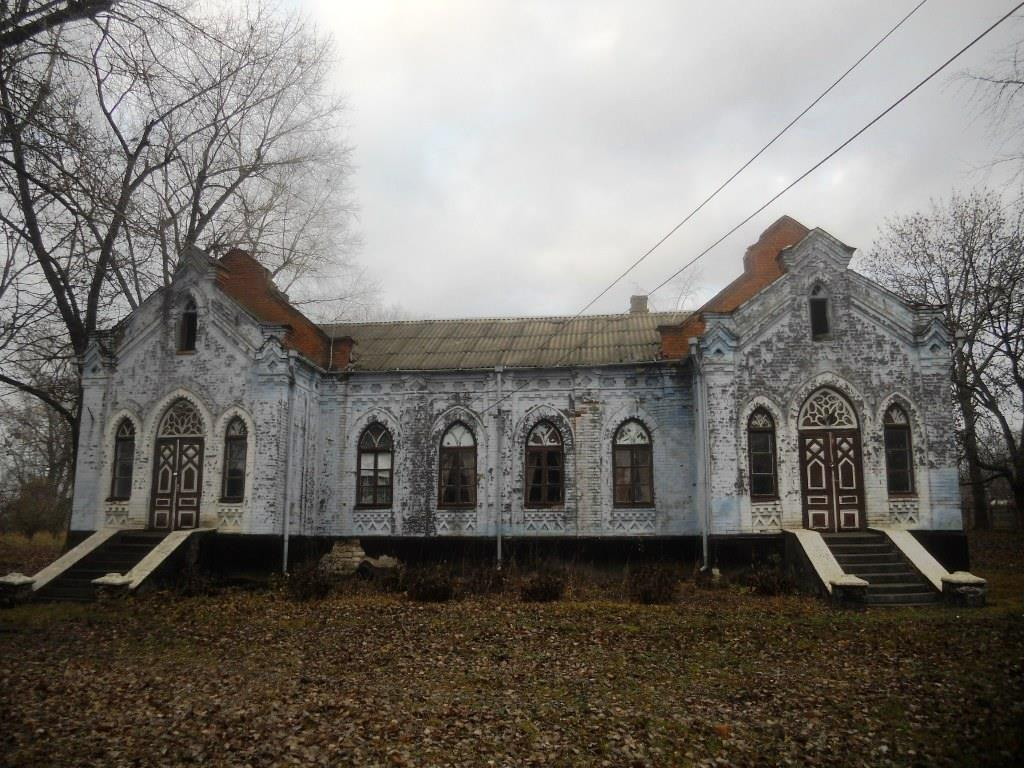 Image of Cazimir mansion in Cernoleuca, Dondușeni DistrictRomână: Vedere a conacului Cazimir din Cernoleuca, raionul Dondușeni